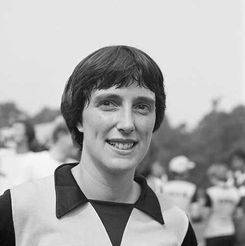 Maria ter Steeg in AVRO's Sterrenslag